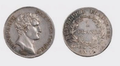 A : Bonaparte Premier Consul - R : République française 1 franc An 12 : silver coin of 5 g minted in Paris (A) by the French Republic Government.